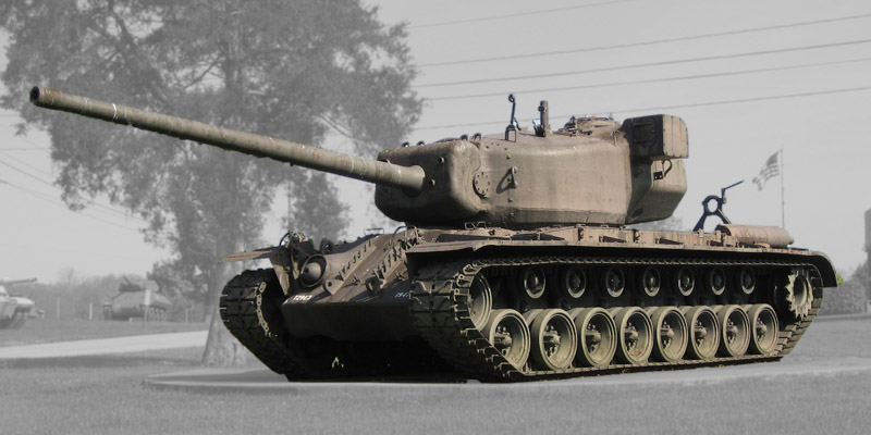 T29E3 on display at the Patton Museum of Cavalry and Armor in Fort Knox, KY. The picture taken May 6, 2007.